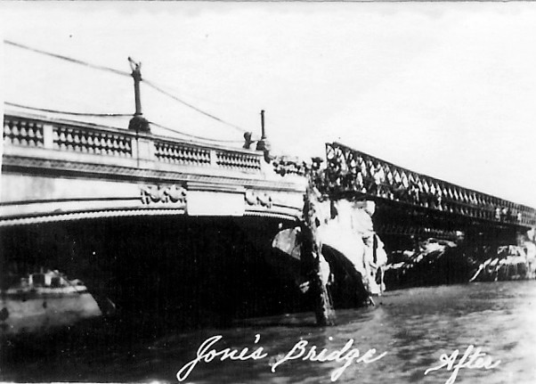 The Jones Bridge in Manila after Japanese attack in 1945